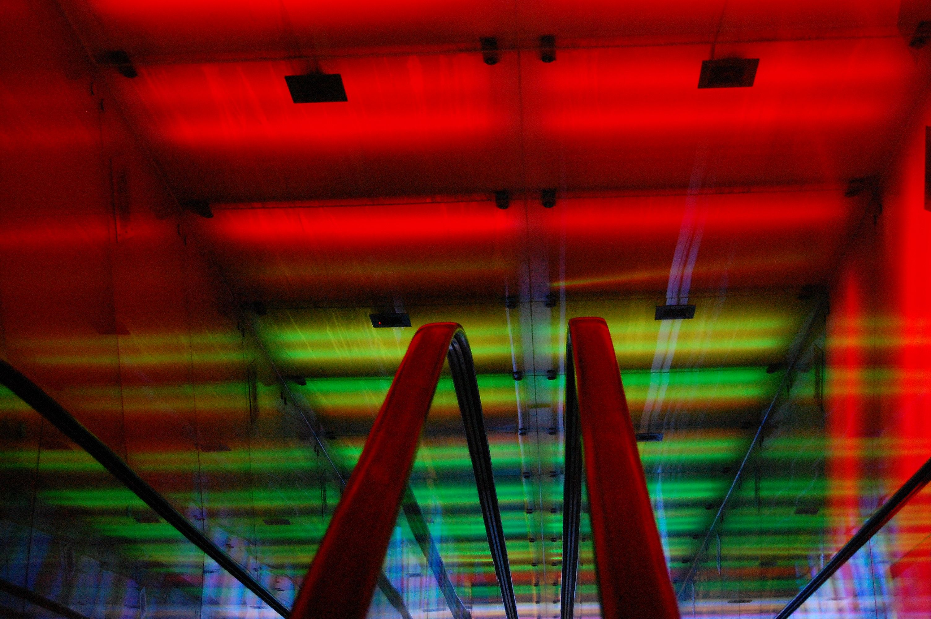 Tunnel Of Light. The entry of Nydalen Subwaystation in Oslo.